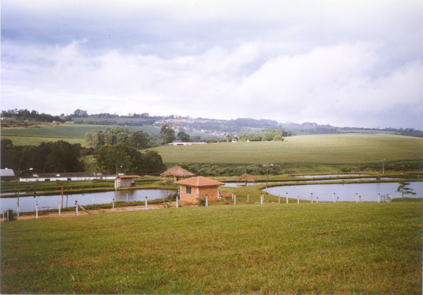 Countryside in Carambeí, Brasil